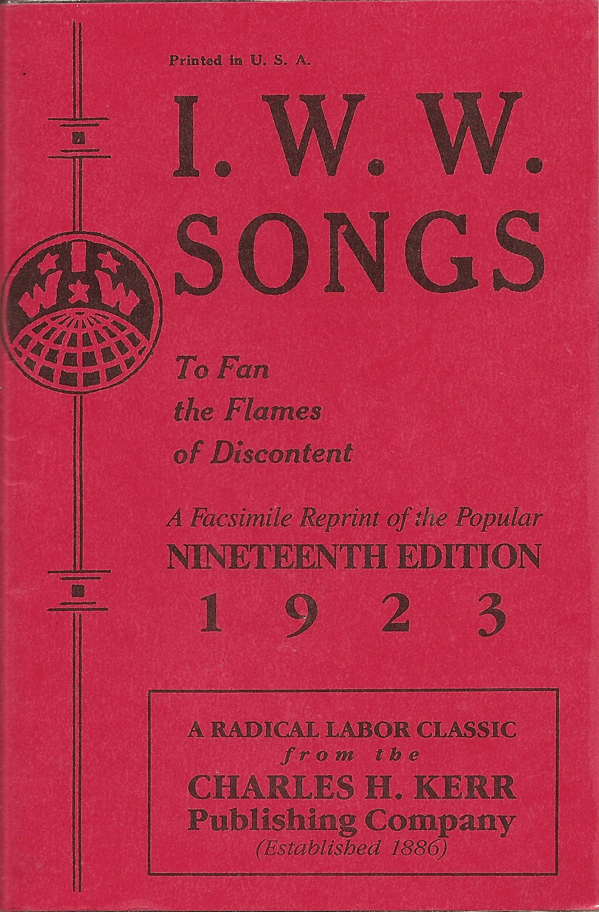 Cover of the facsimile reprint of the Little Red Songbook.